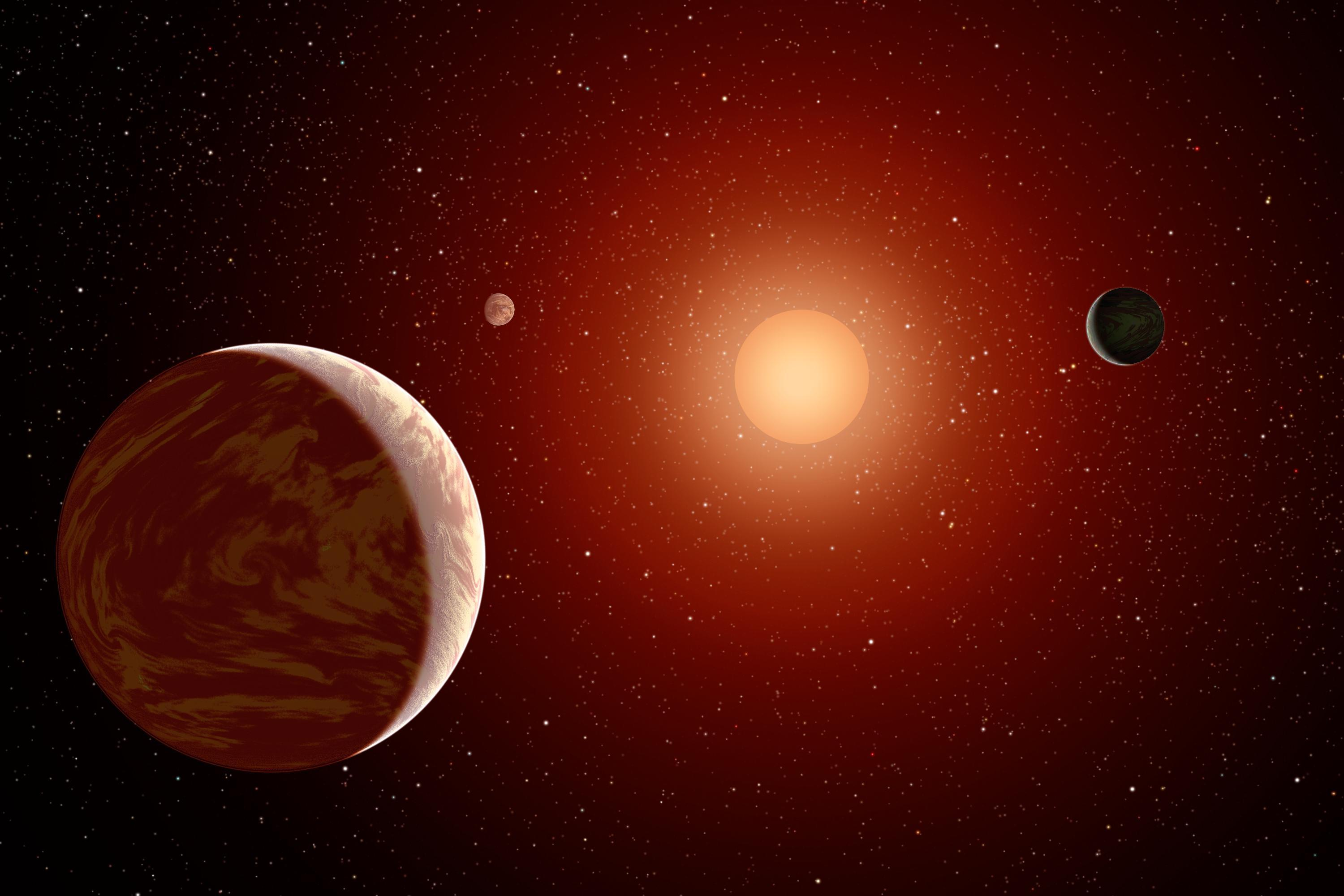 This artist's concept illustrates a young, red dwarf star surrounded by three planets.